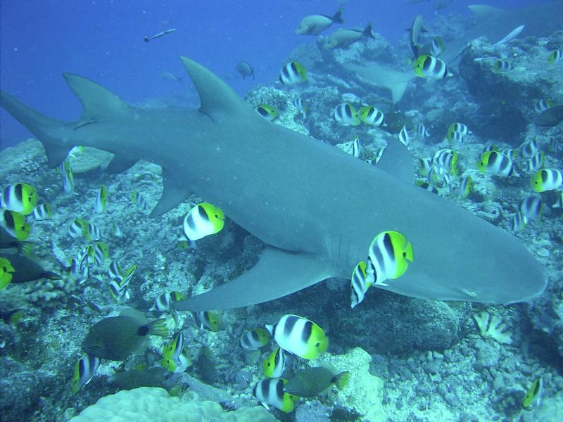 Sicklefin lemon shark (Negaprion acutidens) in French Polynesia